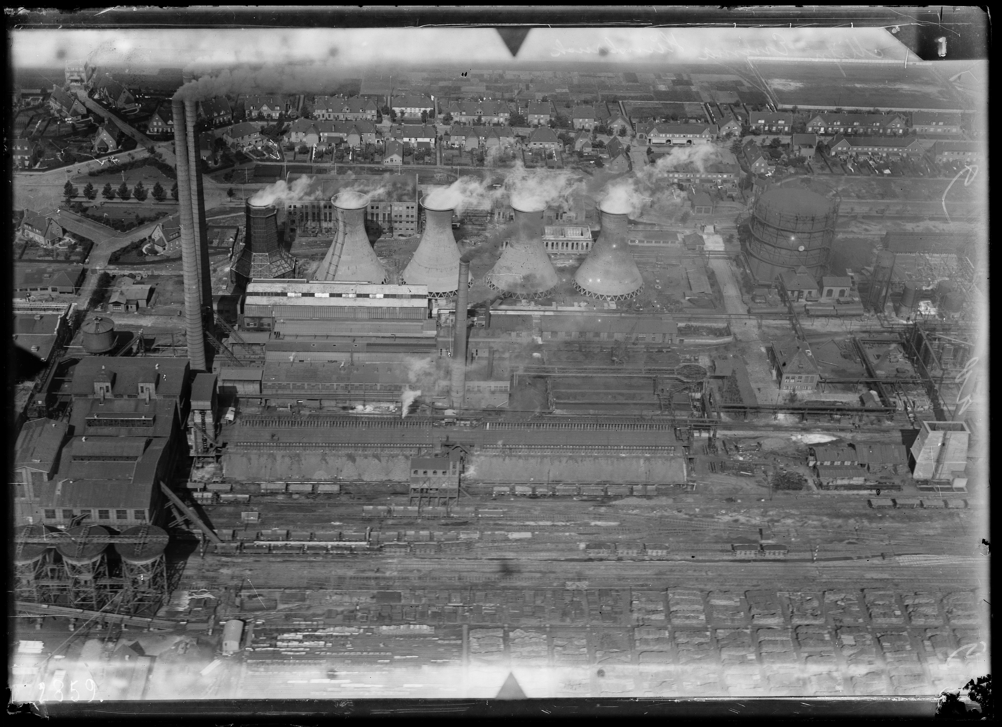 Aerial photograph of Hoensbroek, The Netherlands